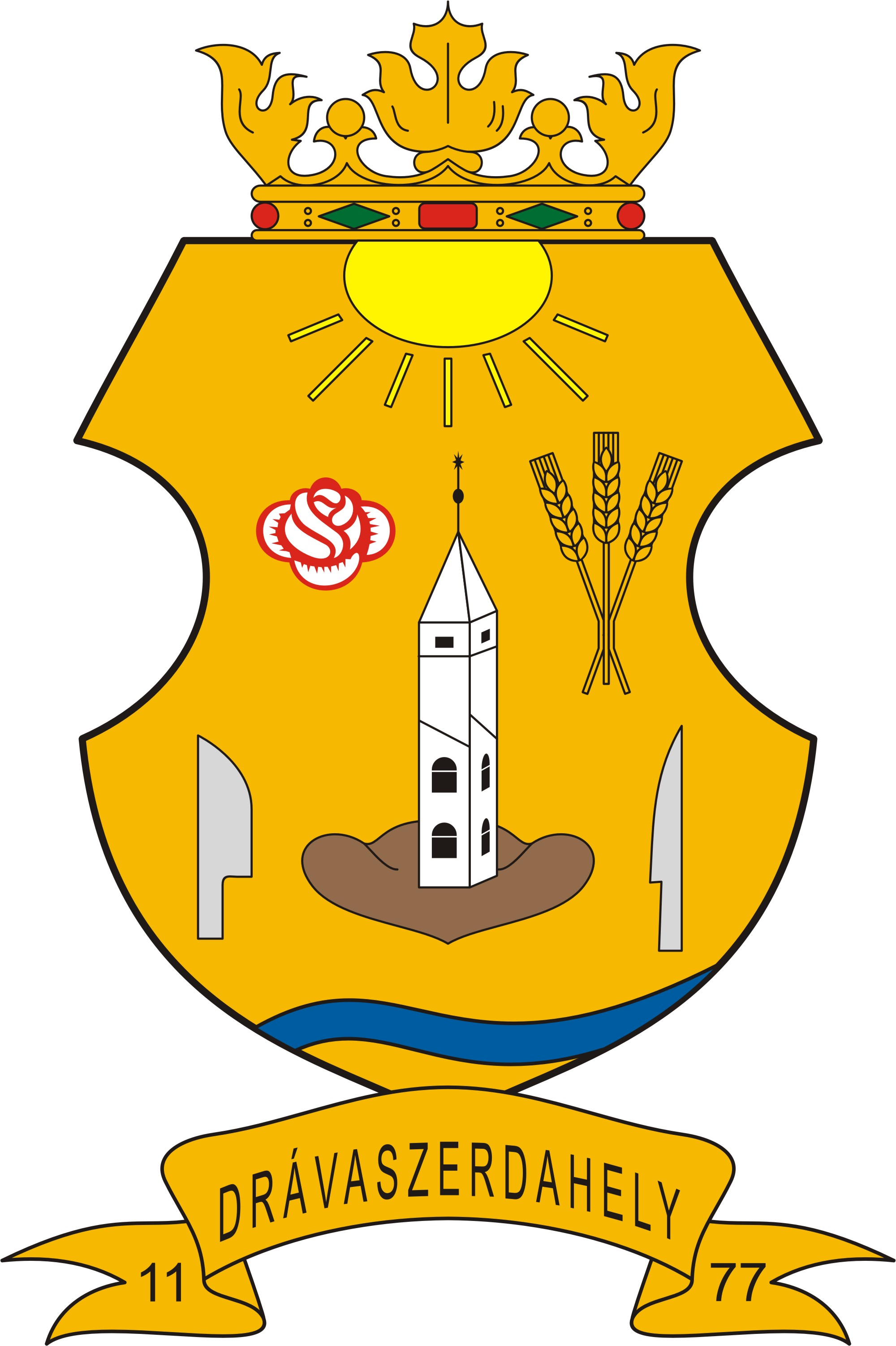 Coat of arms of Drávaszerdahely, Hungary